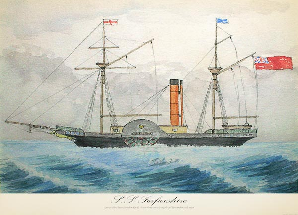 Contemporary watercolour of the packet ship SS Forfarshire that became the subject of the famous Grace Darling rescue of nine of its passengers and crew early in the morning of 7 September 1838 off the Farne Islands, Northumberland, England.